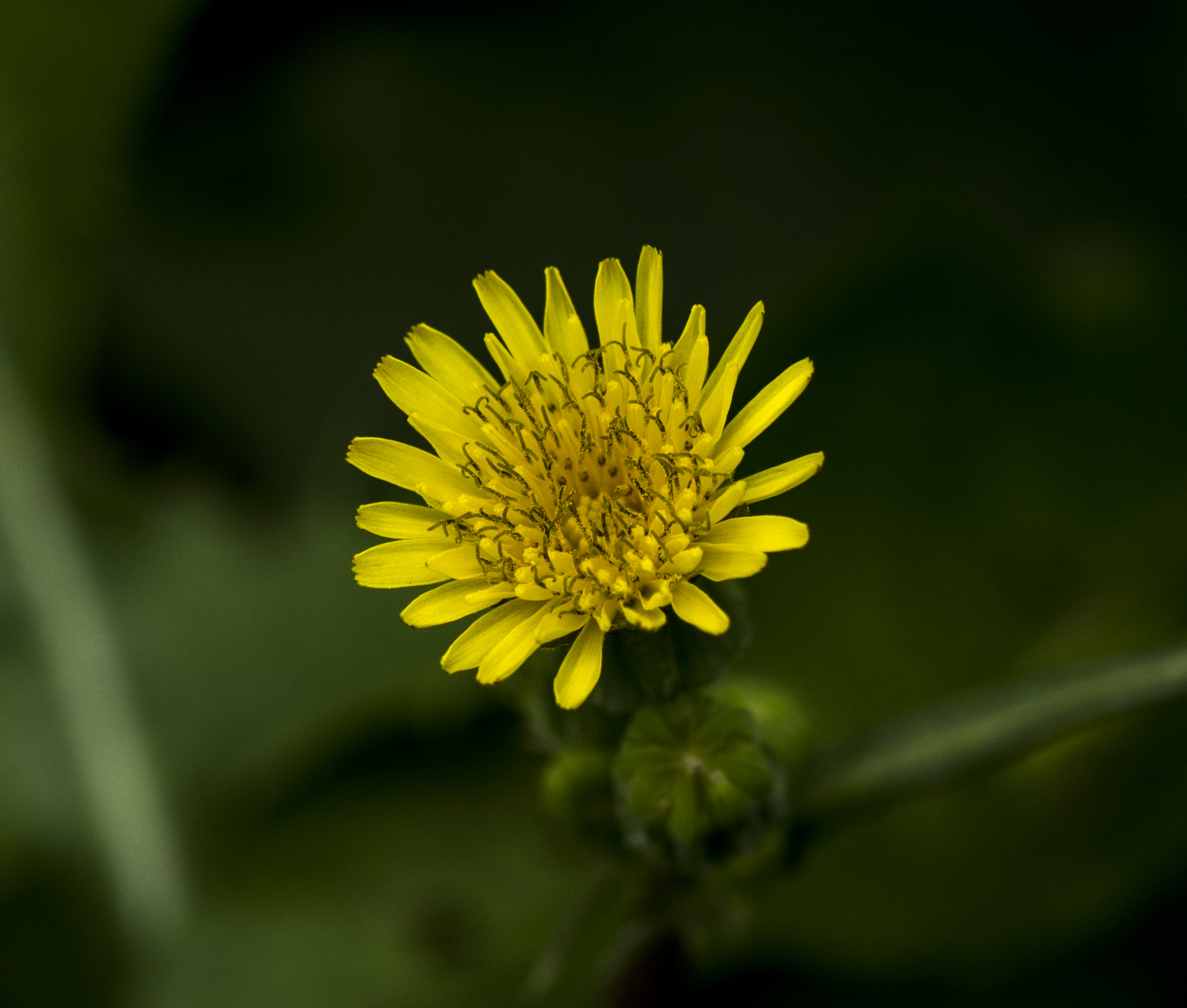 Flower of Sonchus oleraceus shot at Singanallur southern lake bund, Coimbatore on 23 July 2016